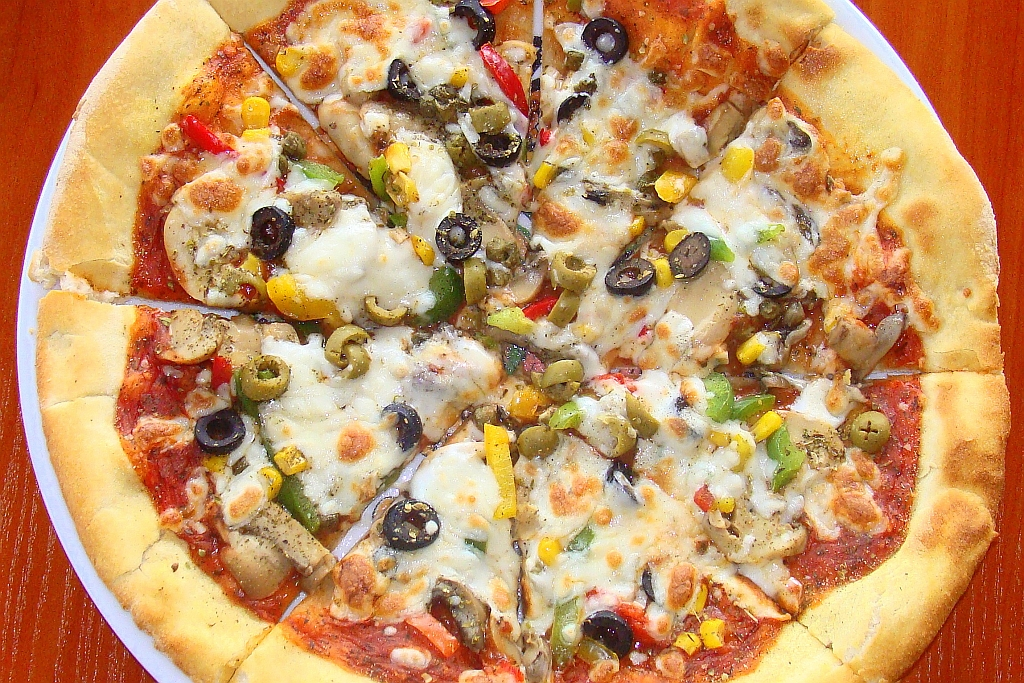 pizza, sanok